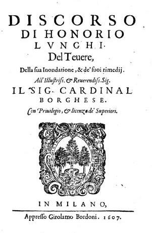 Title page